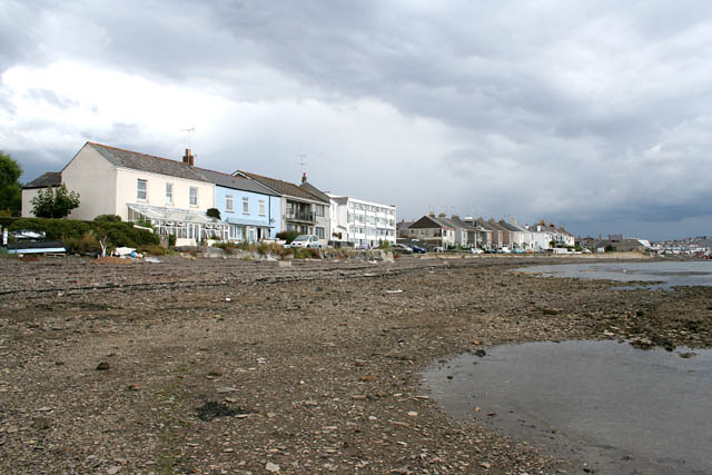 The shore at Torpoint. These cottages are at the end of Marine Drive and are right on the edge of St John's Lake. Compare with72332 which was taken from Marine Drive towards the right of this photograph and looking towards this view point.